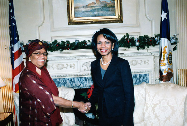 Condoleezza Rice and Ellen Johnson-Sirleaf.